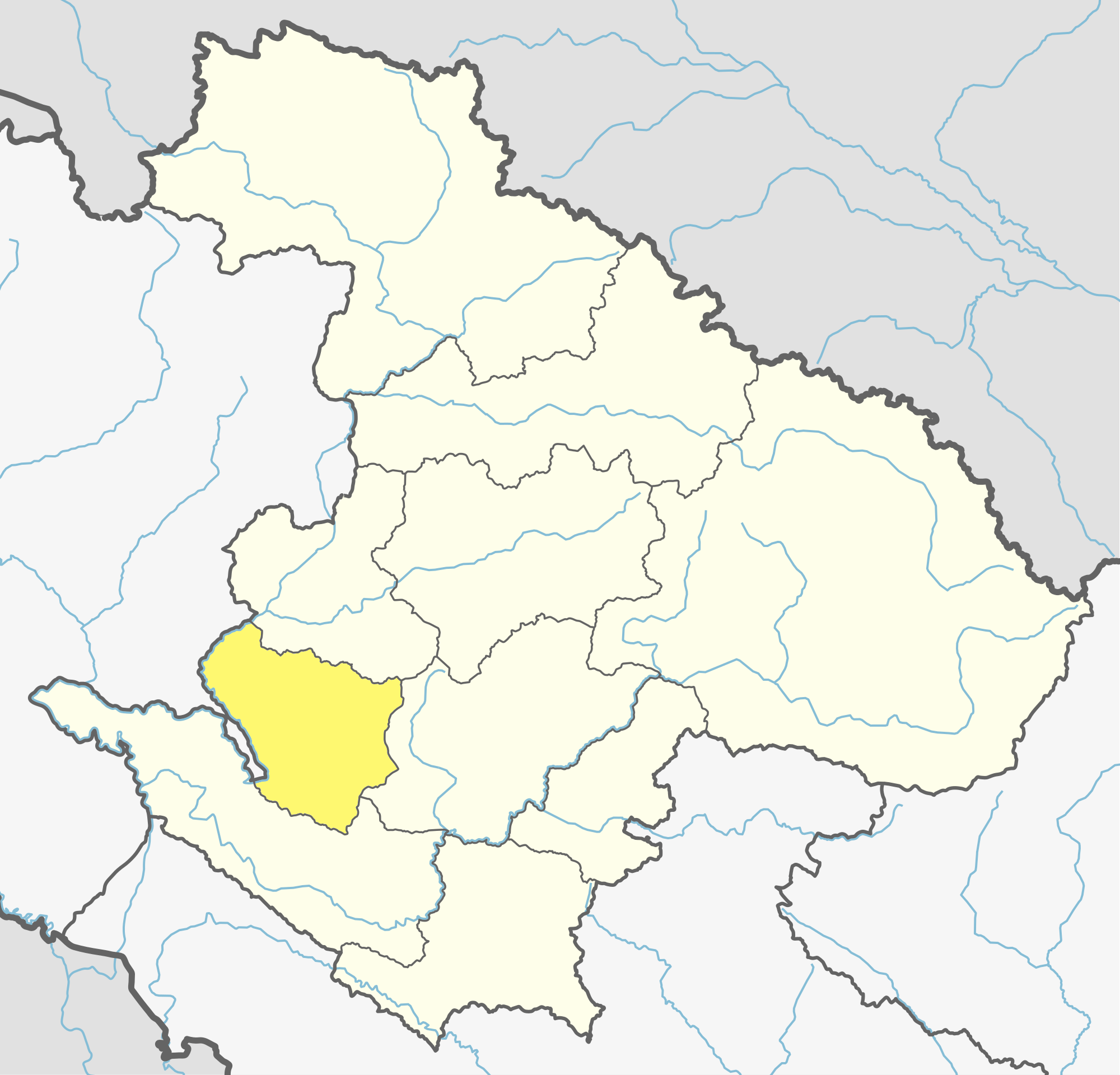 Dailekh District